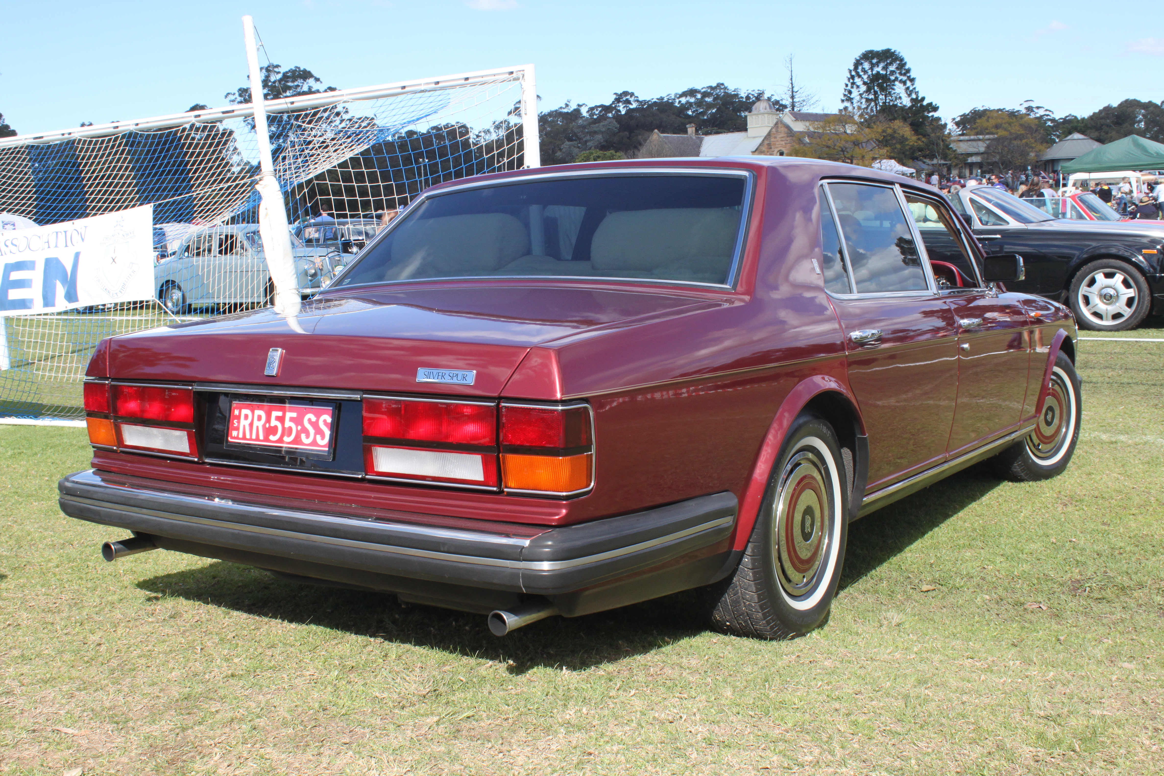 All British Day, Kings School, North Parramatta, NSW August 2015